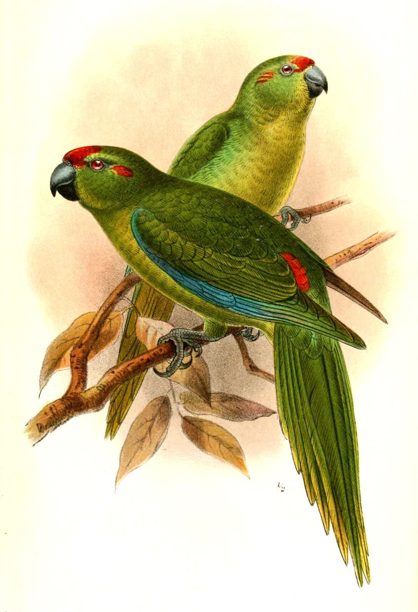 Cyanorhamphus subflavescens = Cyanoramphus novaezelandiae subflavescens Lord Howe Red-crowned Parakeet